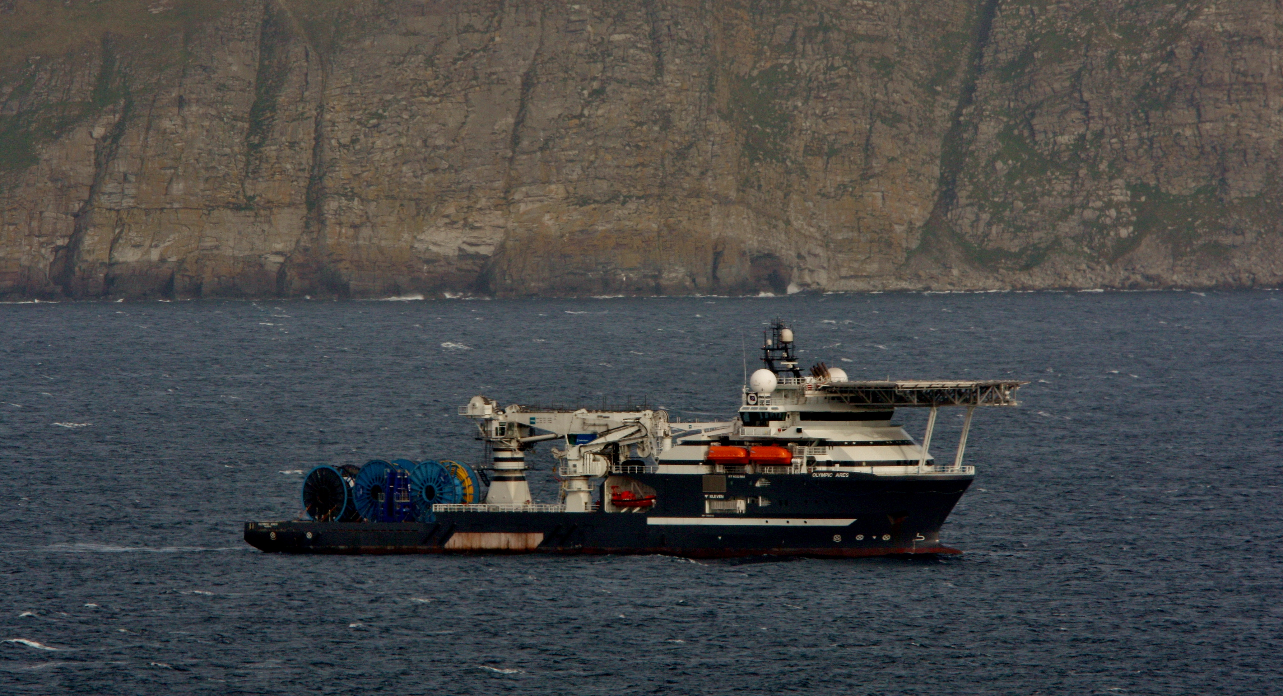 Anchored off Bard of Bressay.